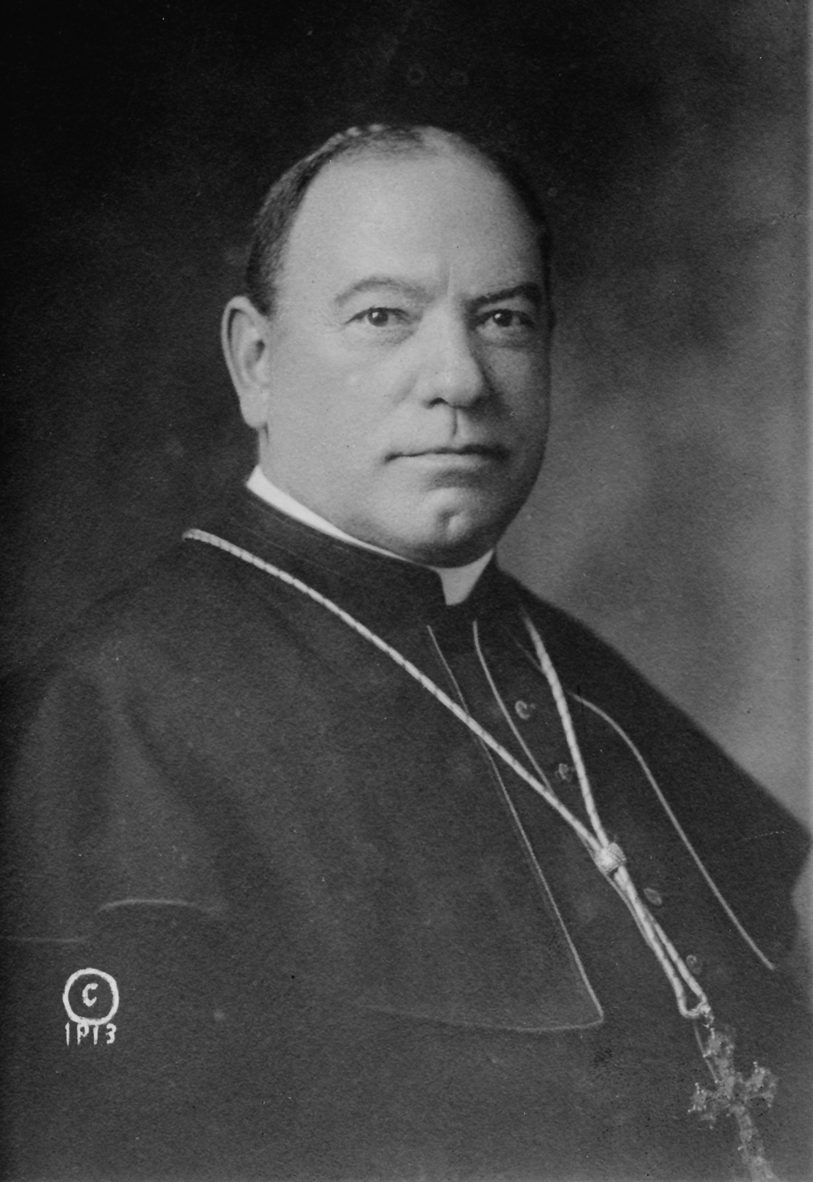 Photo shows Cardinal William Henry O'Connell (1859-1944), Archbishop of Boston. (Source: Flickr Commons project, 2010)